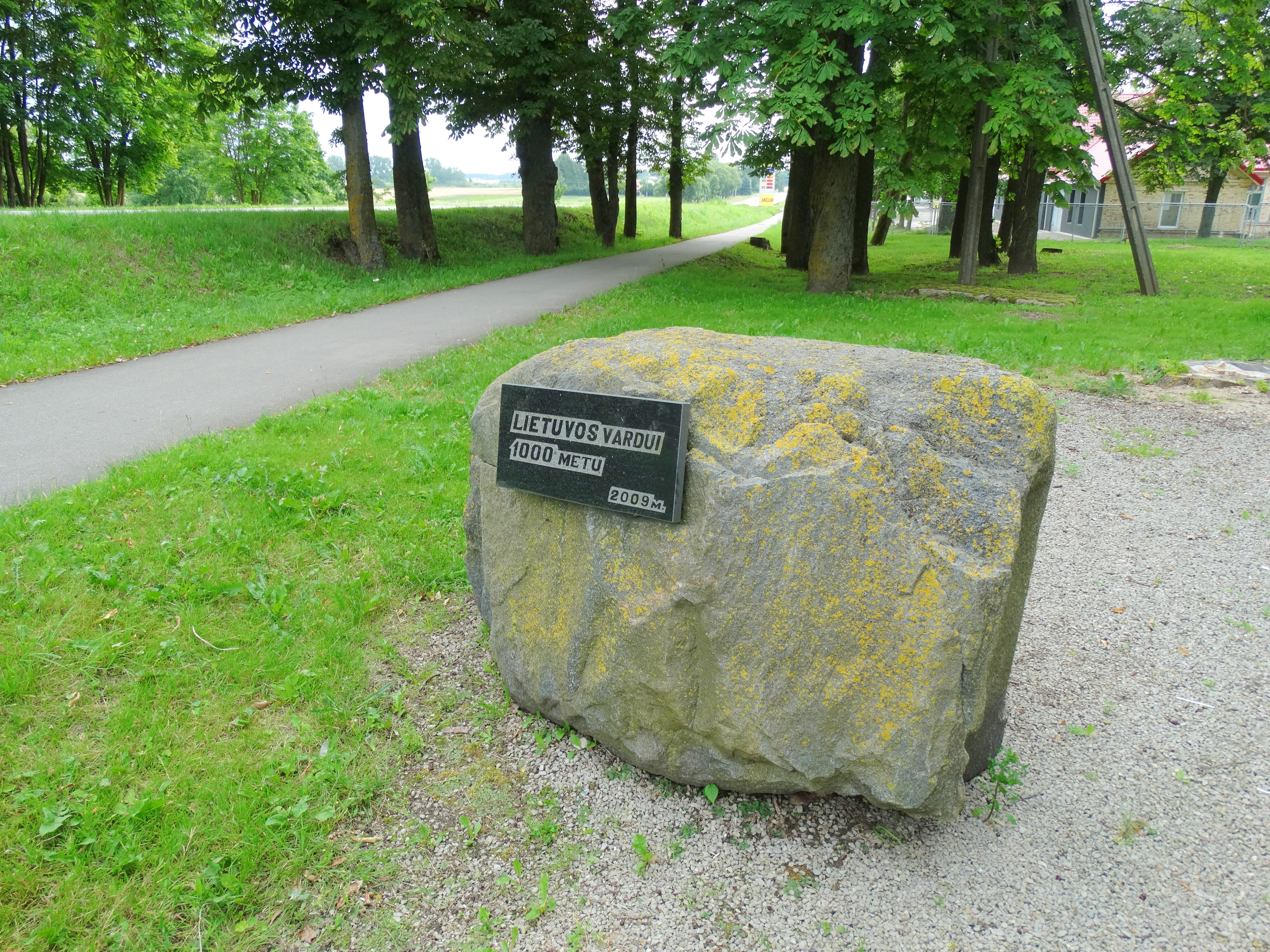 Stone, Kairiai, Šiauliai district, Lithuania